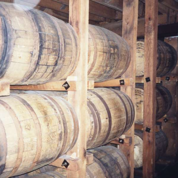 Whiskey barrels in the Jack Daniels destillery, Lynchburg, Tennessee.